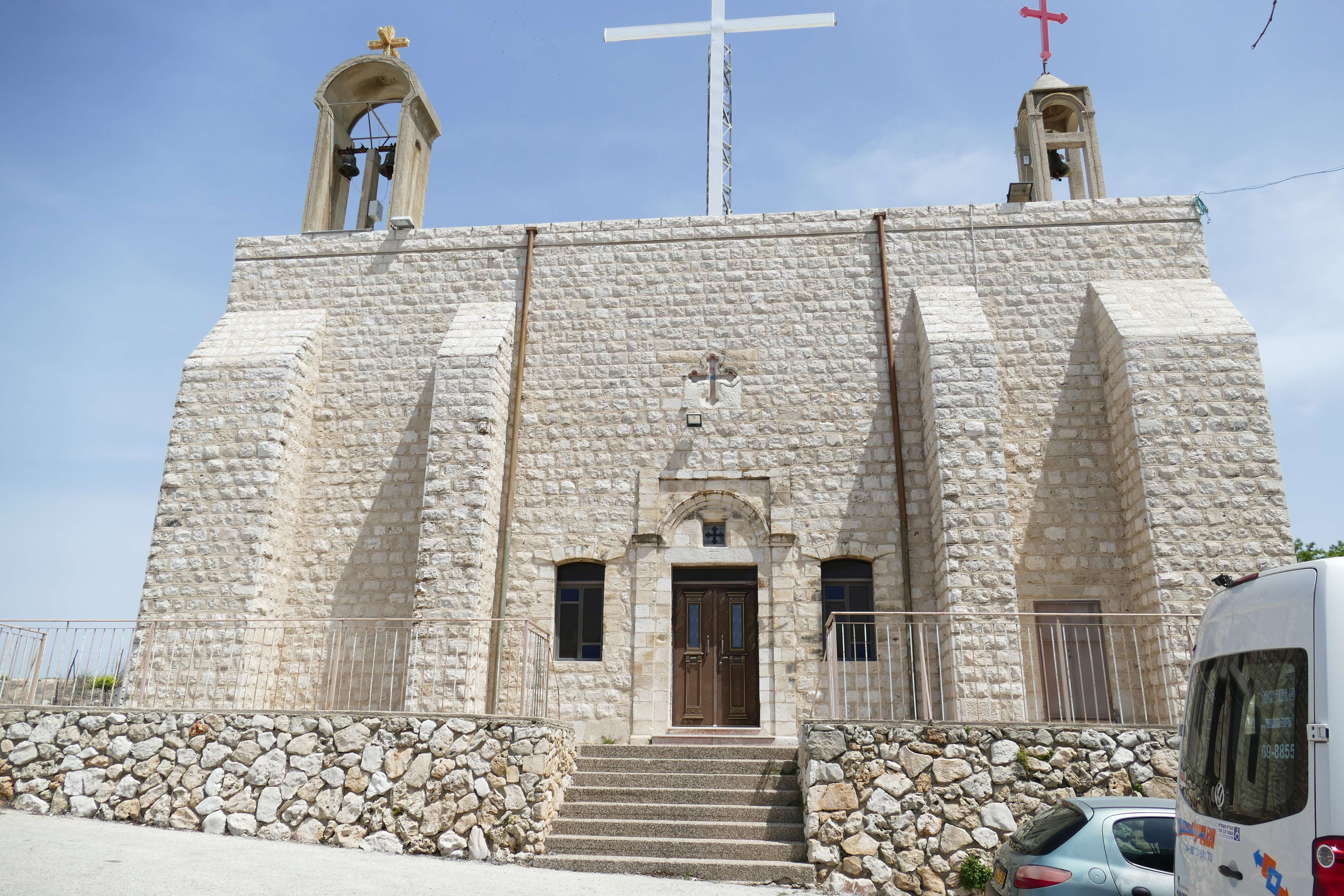 Jish (Gush Halav), Israel.